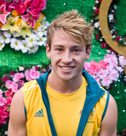 Matthew Mitcham - Australian Olympic 2008 gold medalist in diving, photo taken at Mardi Gras, Sydney, 2009